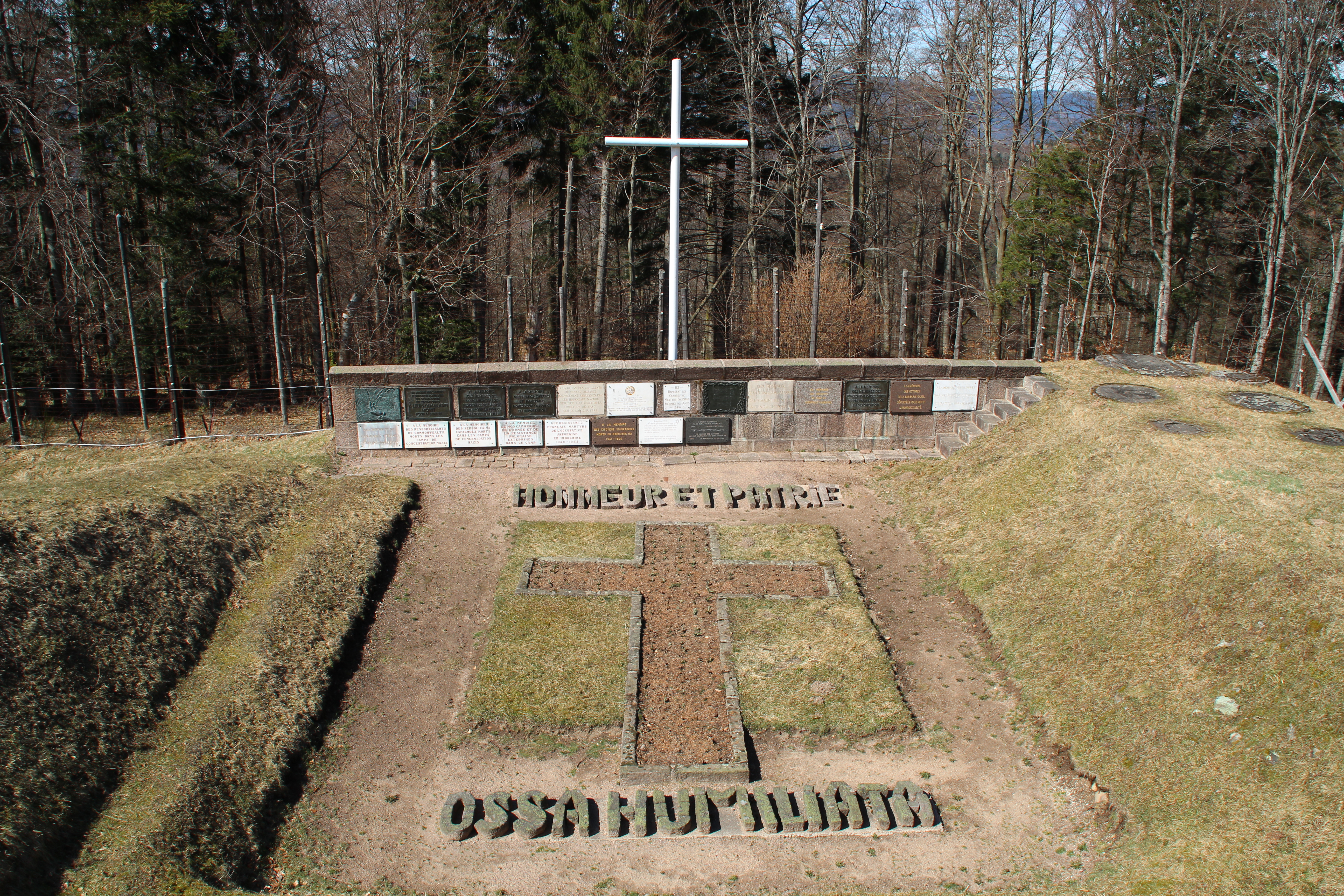 Natzweiler-Struthof concentration camp in Natzwiller, France. Object location48° 27′ 20.02″ N, 7° 15′ 14.58″ E .